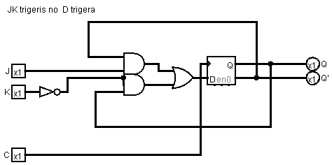 Simulating a JK flip-flop using a D flip-flop